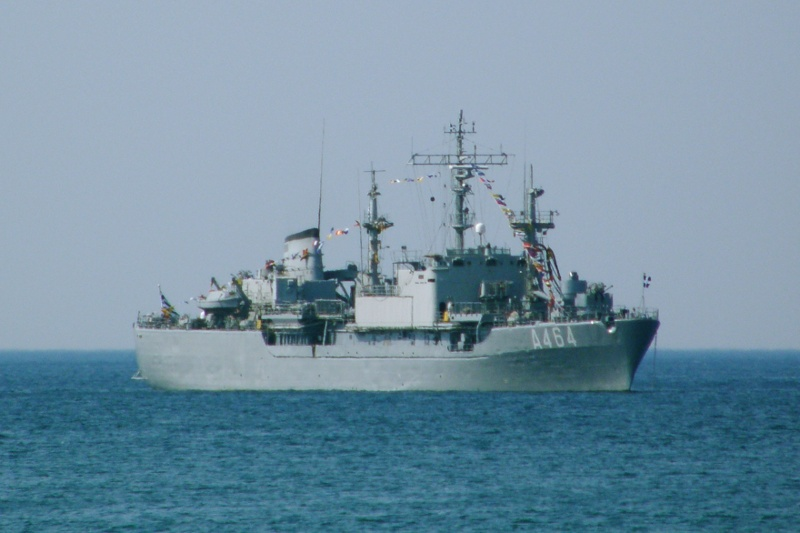 Lueneburg (701C) class Fleet Replenishment Ship Axios (A464), of the Hellenic Navy in Phaleron Bay. From 1968 to 1991 the Axios was in service as the German Coburg (A1412).